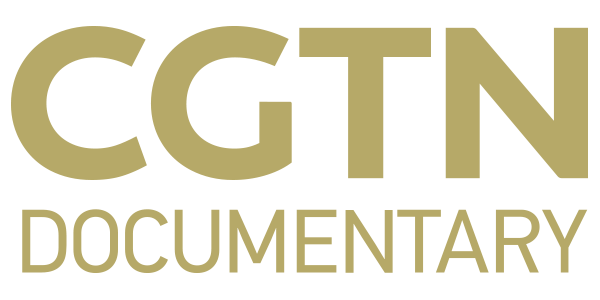 The logo for CGTN Documentary